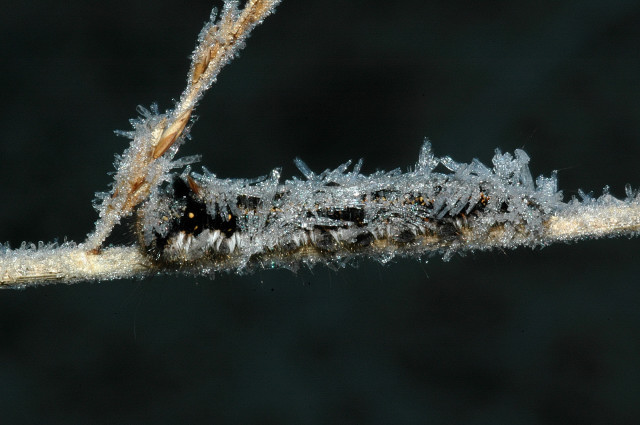 Euthrix potatoria, hibernating larva. Location: The Netherlands - Nationaal Park de Meinweg.